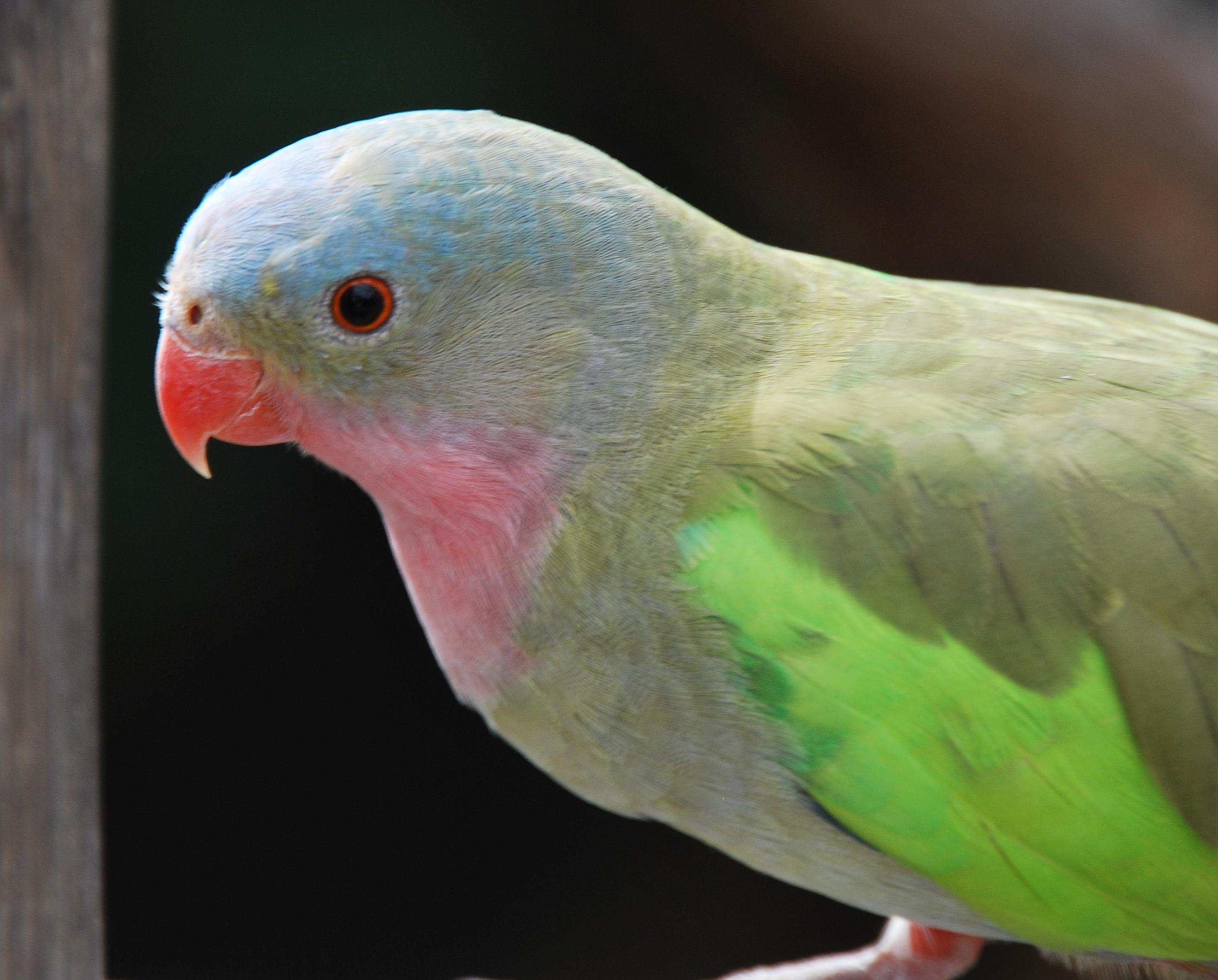 Princess Parrot at Cincinnati Zoo, USA.